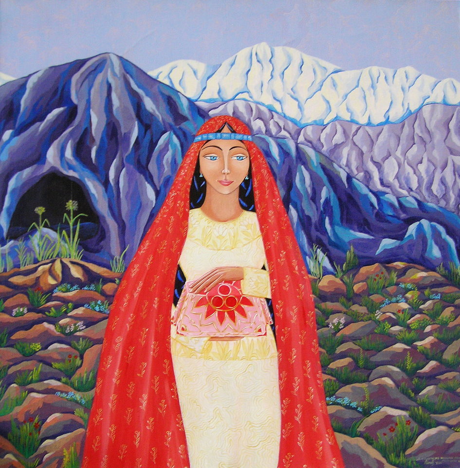 Painting by Lola Lonli. "Once the Woman from Belovodye went out of Cave". 2000. Egg tempera on canvas. 80 x 85 cm